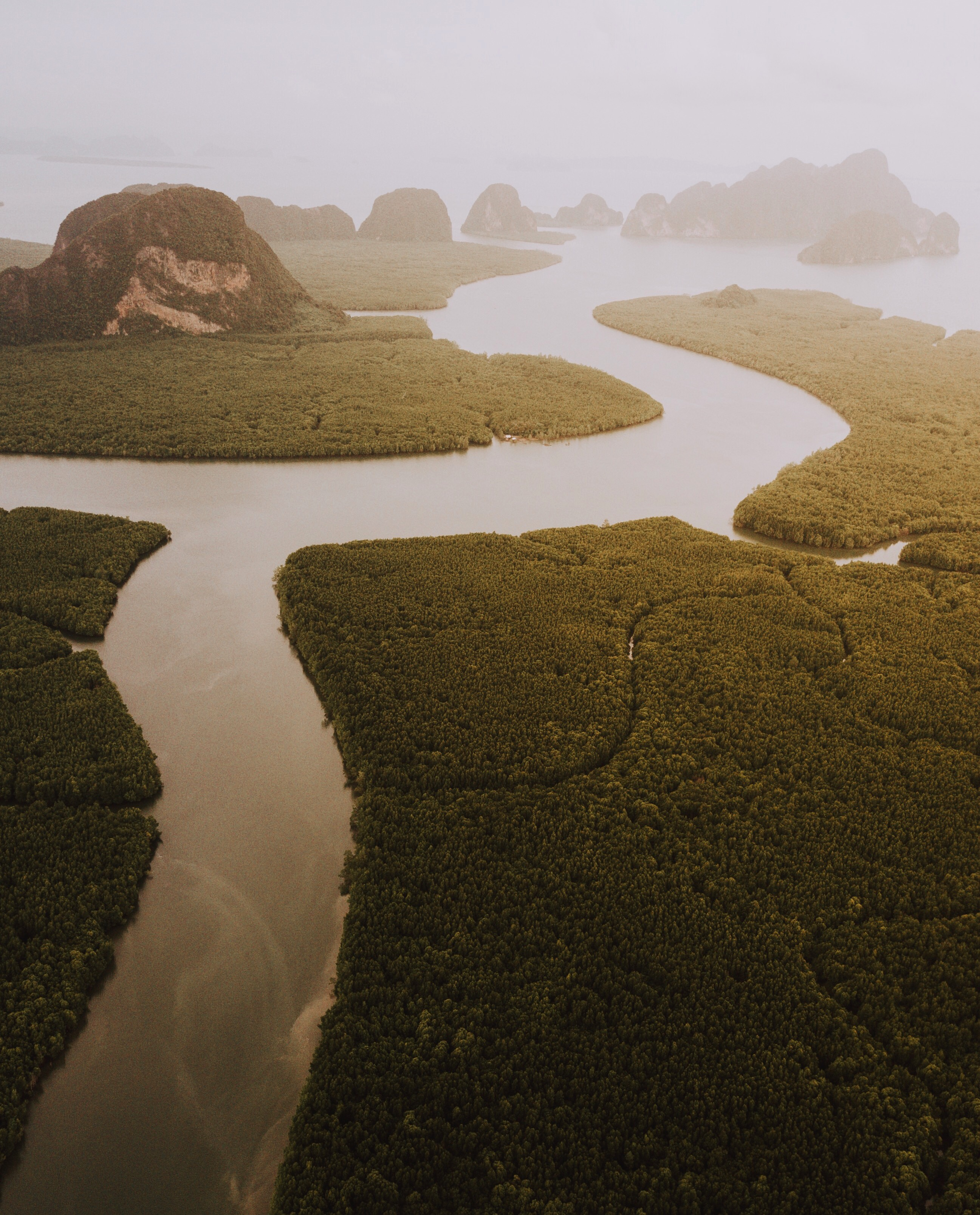 Drone photo of rivers in Phang-nga National Park